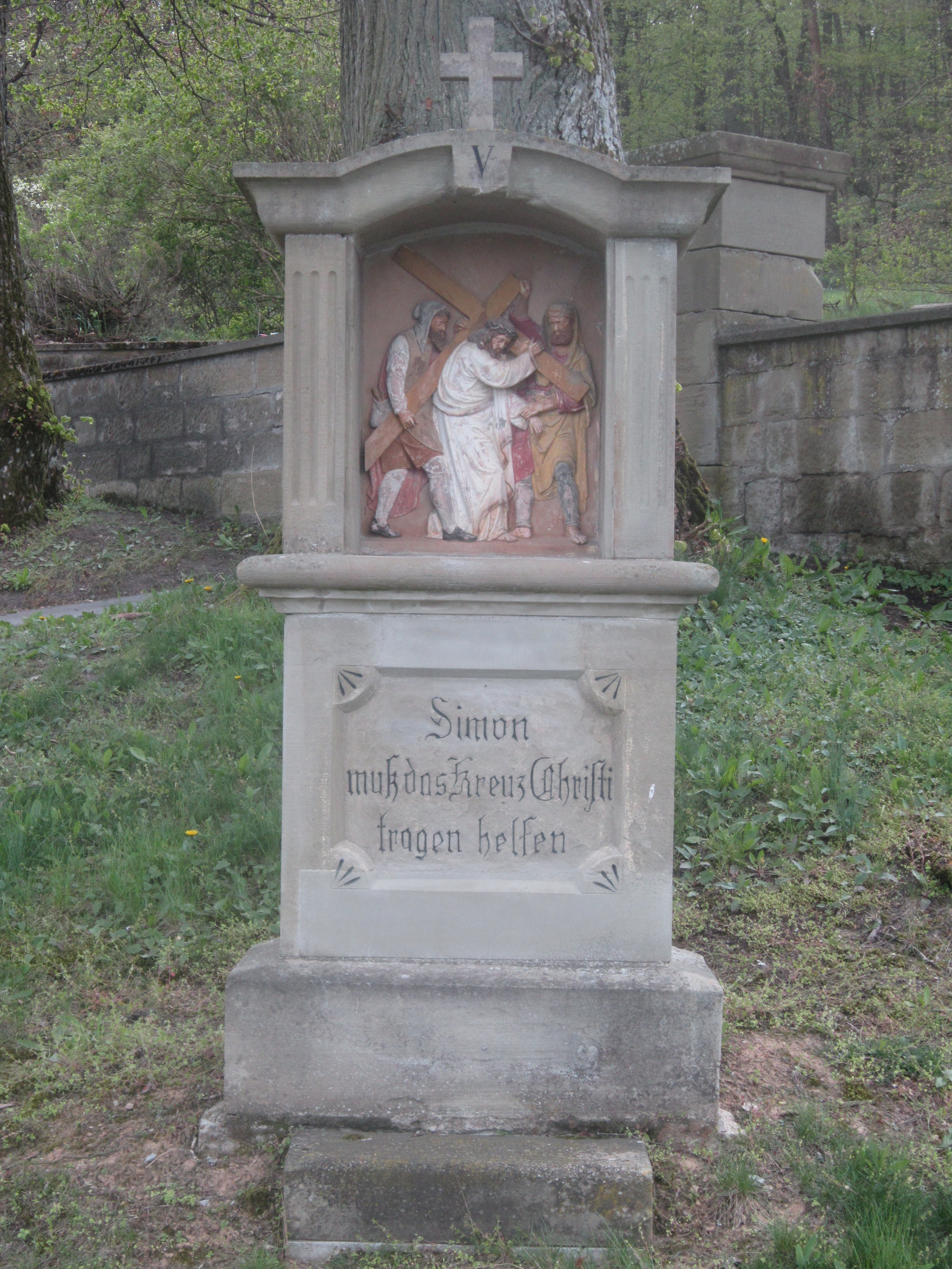 5th Station of the Stations of the Cross in Theinfeld, a quarter of the German town of Thundorf in Unterfranken in Lower Franconia (Bavaria).